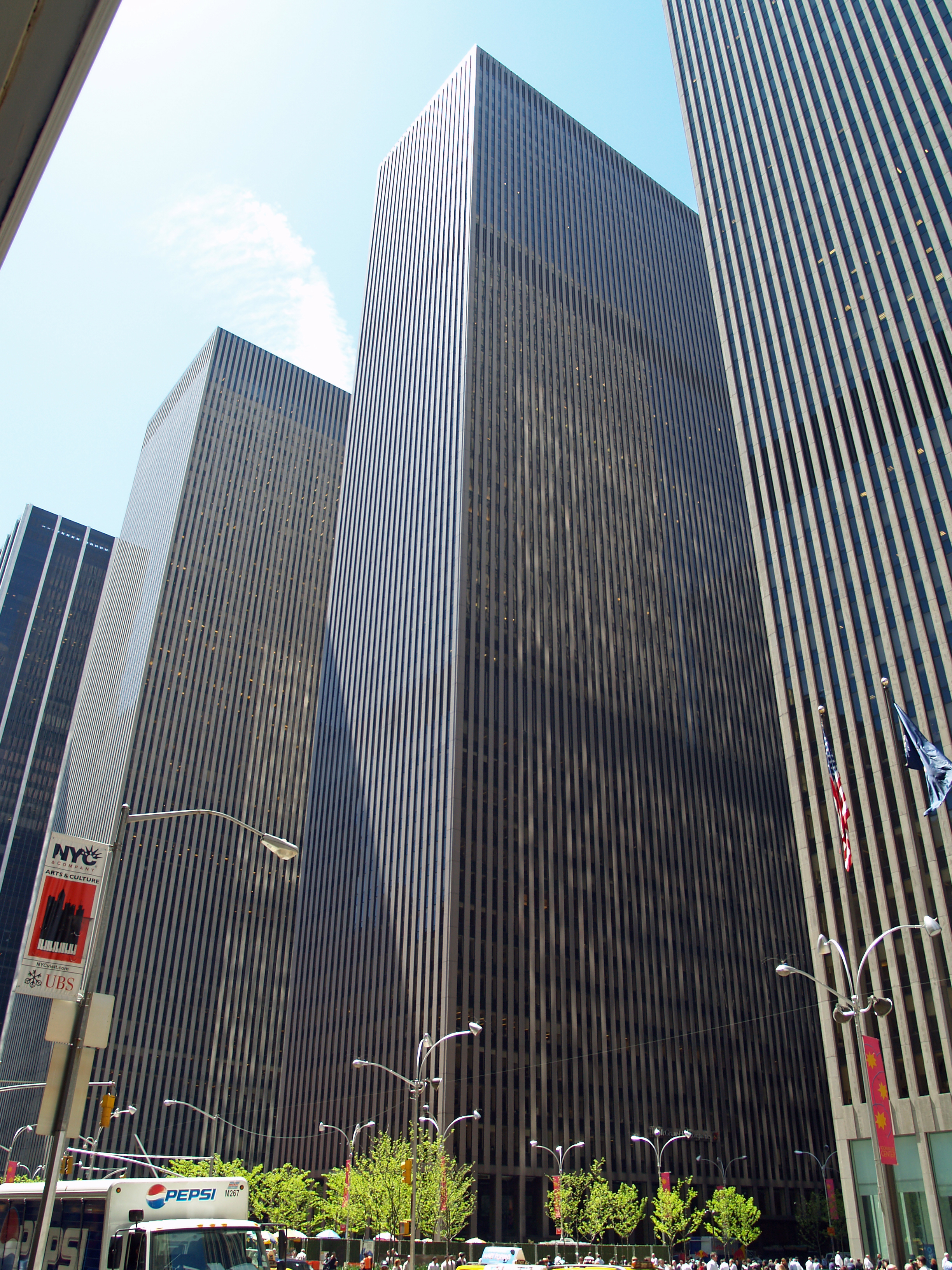 McGraw-Hill Building at Rockefeller Center